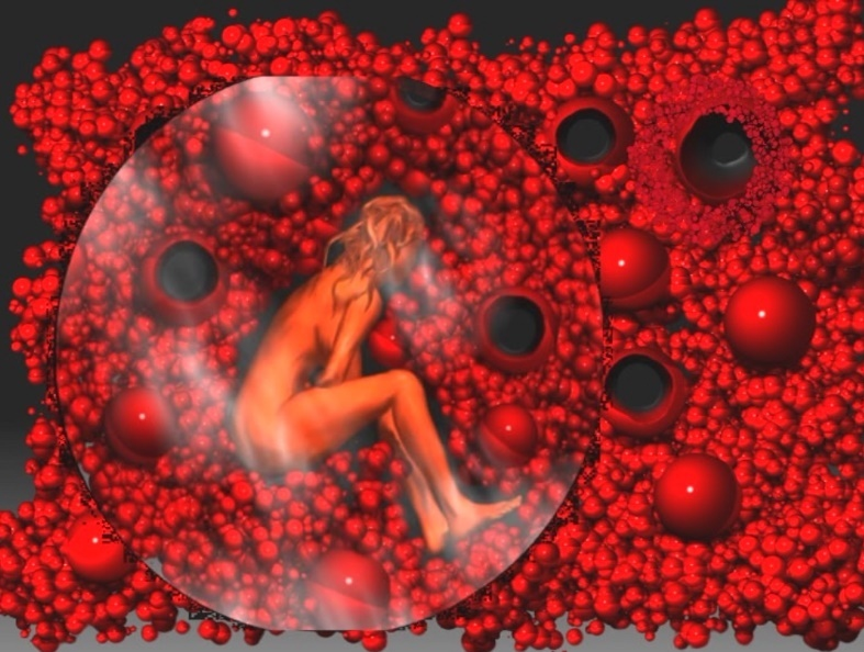 Inside the circle, digital drawing 2009, by Tammy Mike Laufer